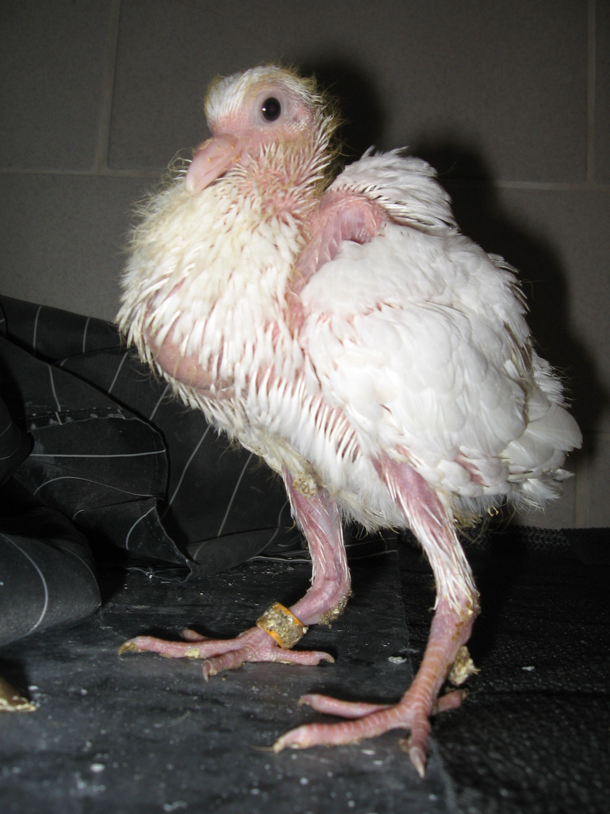 Bird 74 with patchy feather growth. Just under 2 weeks old.